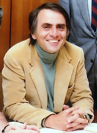 Part of Image:Planetary society.jpg Original caption: "Founding of the Planetary Society Carl Sagan, Bruce Murray and Louis Friedman, the founders of The Planetary Society at the time of signing the papers formally incorporating the organization. The fourth person is Harry Ashmore, an advisor, who greatly helped in the founding of the Society. Ashmore was a Pulitizer Prize winning journalist and leader in the Civil Rights movement in the 1960s and 1970s."